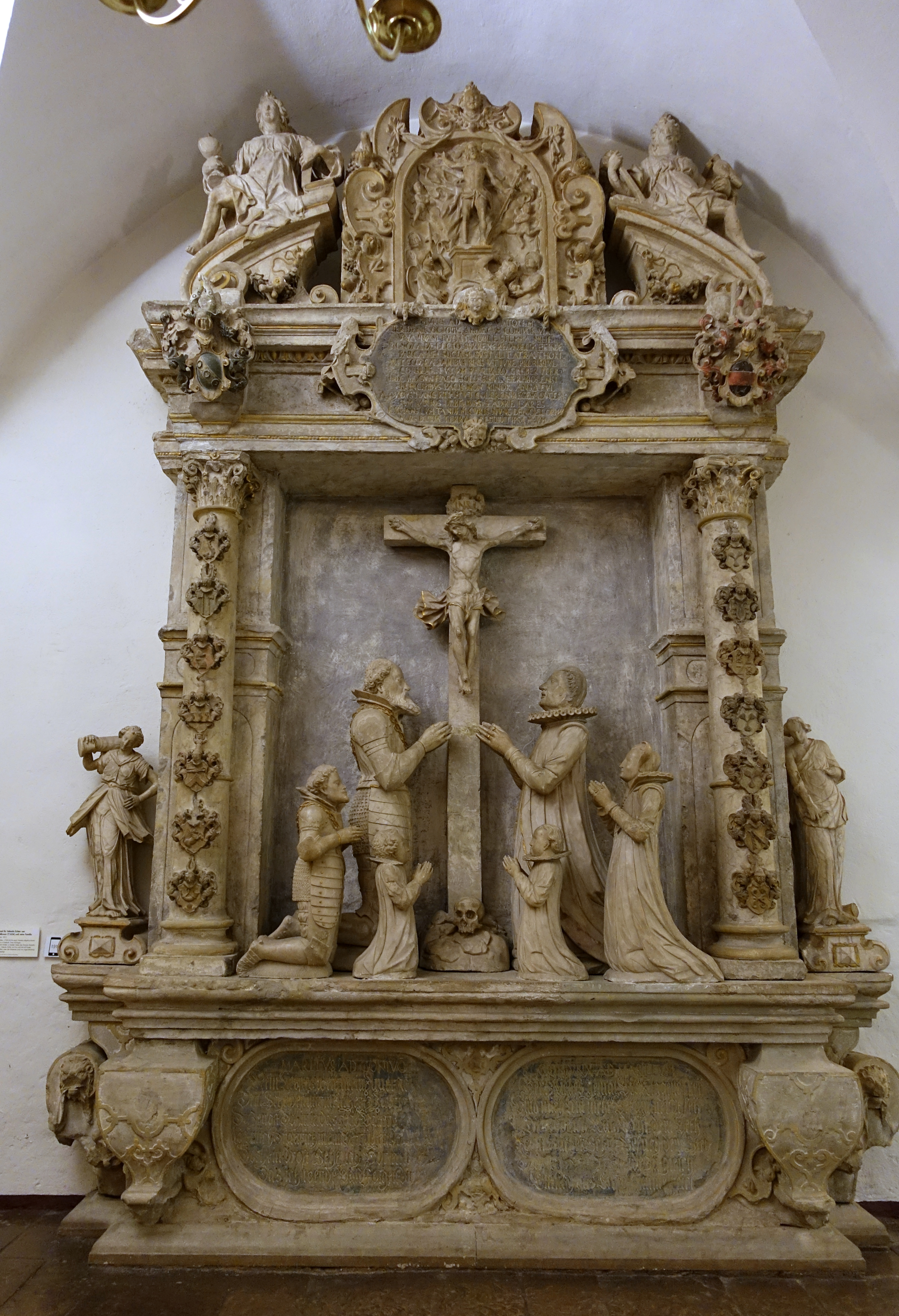 Exhibit in the Mainfränkisches Museum - Würzburg, Germany.